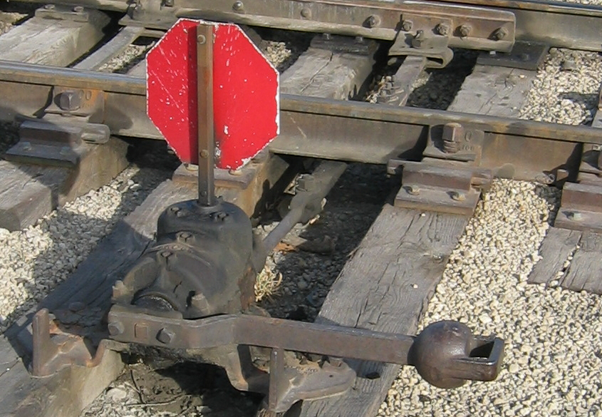 Railroad switch. Grain elevator district. Minneapolis, United States.